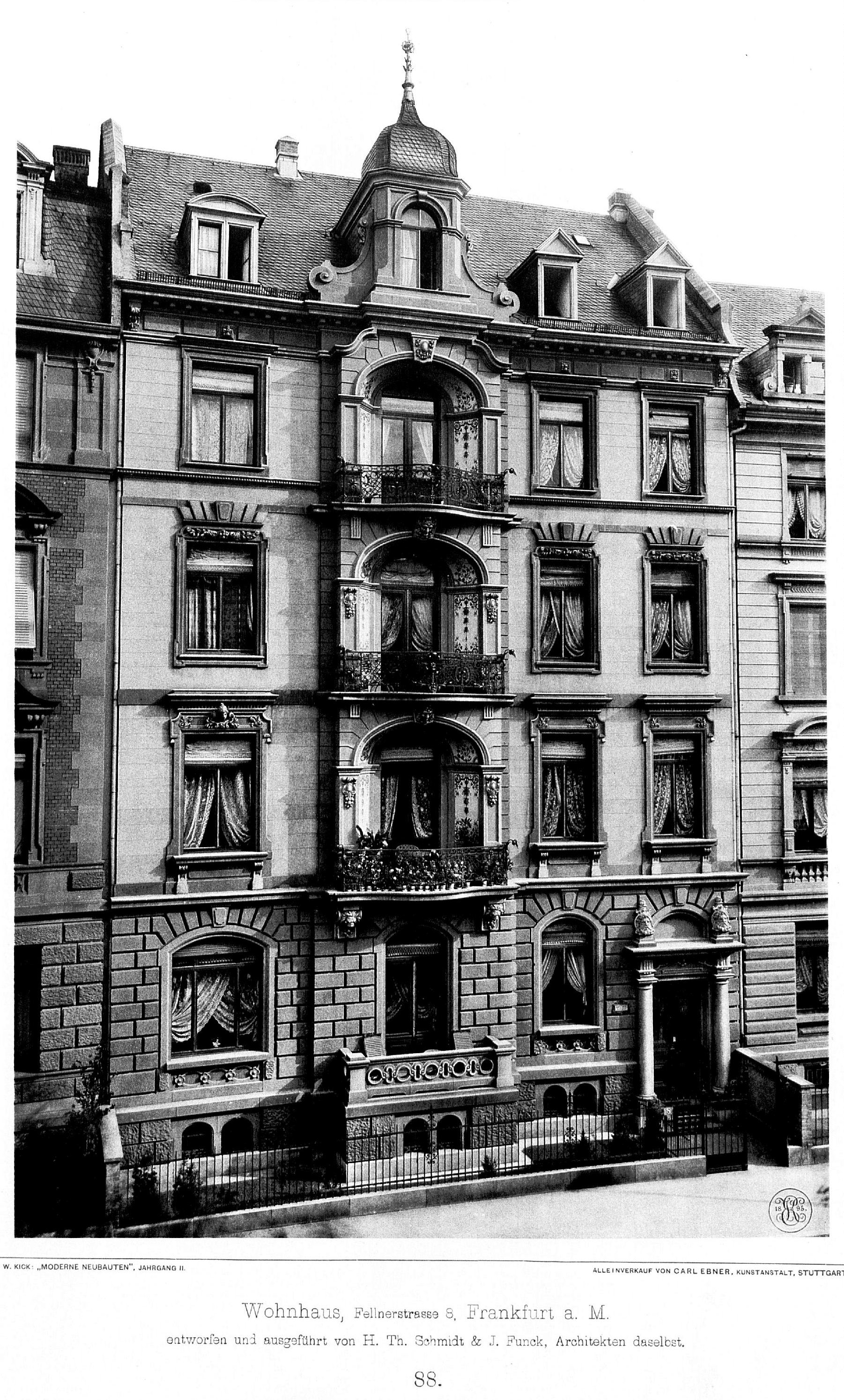 Wohnhaus,_Fellnerstrasse_8,_Frankfurt_am_Main,_Architekten_H.Th.Schmidt_&_J._Funck,_Berlin,_Tafel_88,_Kick_Jahrgang_II.jpg